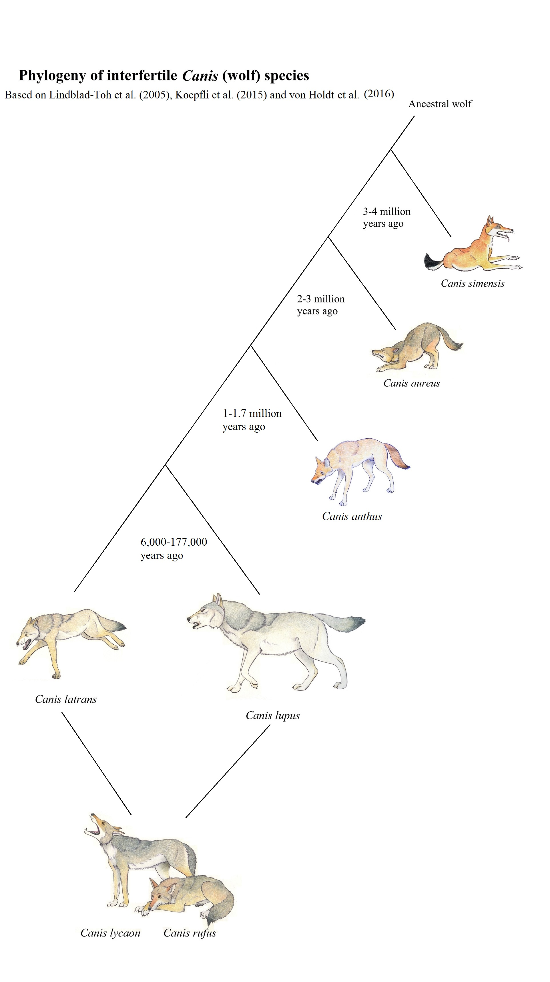 The sources used are: Lindblad-Toh, K.; Wade, CM; Mikkelsen, TS; Karlsson, EK; Jaffe, DB; Kamal, M; Clamp, M; Chang, JL et al. (2005). "Genome sequence, comparative analysis and haplotype structure of the domestic dog". Nature 438 (7069): 803–819. Koepfli, K.-P.; Pollinger, J.; Godinho, R.; Robinson, J.; Lea, A.; Hendricks, S.; Schweizer, R. M.; Thalmann, O.; Silva, P.; Fan, Z.; Yurchenko, A. A.; Dobrynin, P.; Makunin, A.; Cahill, J. A.; Shapiro, B.; Álvares, F.; Brito, J. C.; Geffen, E.; Leonard, J. A.; Helgen, K. M.; Johnson, W. E.; O’Brien, S. J.; Van Valkenburgh, B.; Wayne, R. K. (2015-08-17). "Genome-wide Evidence Reveals that African and Eurasian Golden Jackals Are Distinct Species". Current Biology 25: 2158–65. von Holdt, Bridgett M.; Cahill, James A.; Fan, Zhenxin; Gronau, Ilan; Robinson, Jacqueline; Pollinger, John P.; Shapiro, Beth; Wall, Jeff; Wayne, Robert K. (2016). "Whole-genome sequence analysis shows that two endemic species of North American wolf are admixtures of the coyote and gray wolf". Science Advances. 2 (7).